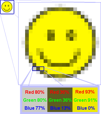 I made this image and I hereby put it in the public domain.--user:branko Excellent job on this image. Derrick Coetzee 23:09, 29 Feb 2004 (UTC)